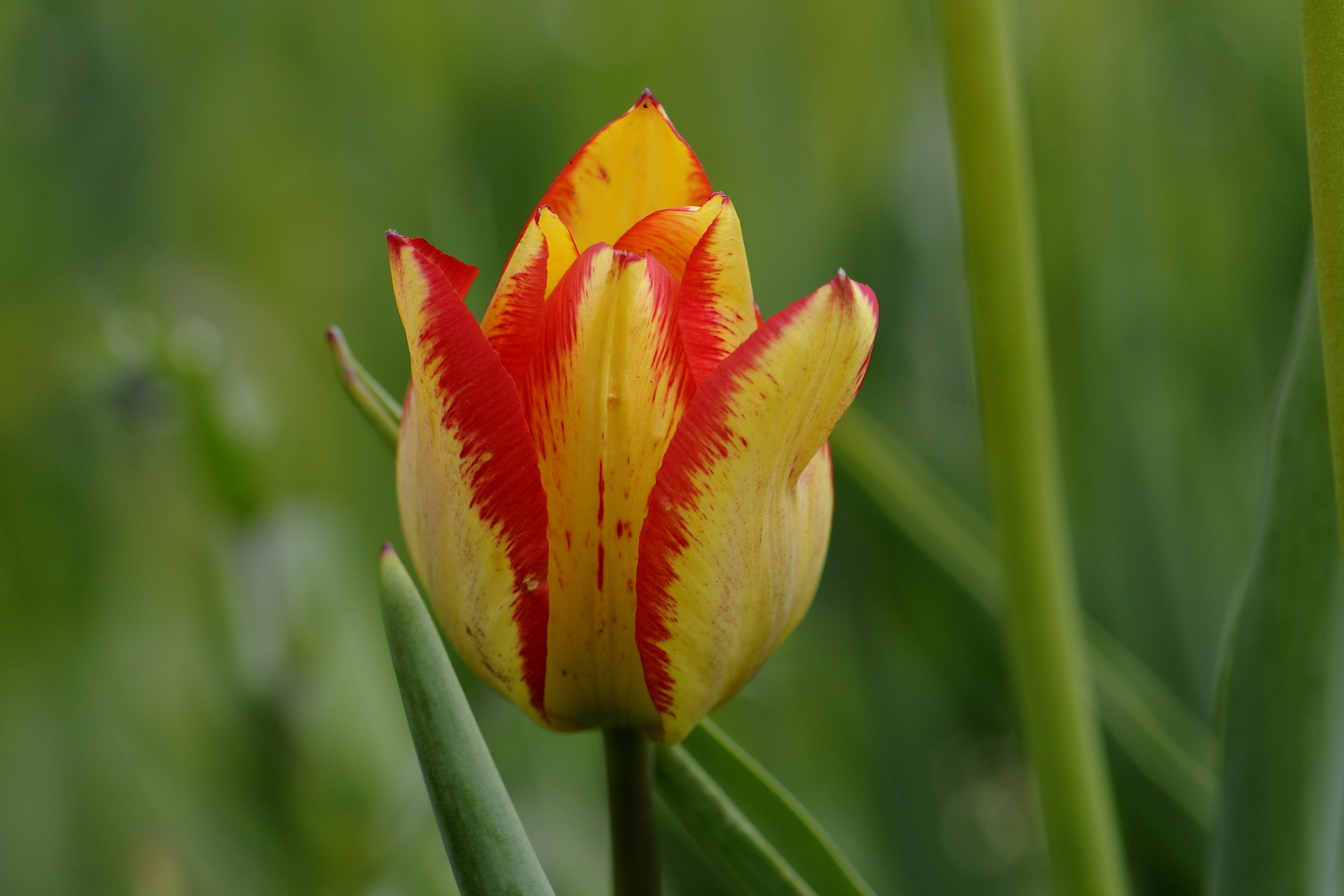 Tulipa grengiolensis, Grengiols/Valais/Switzerland